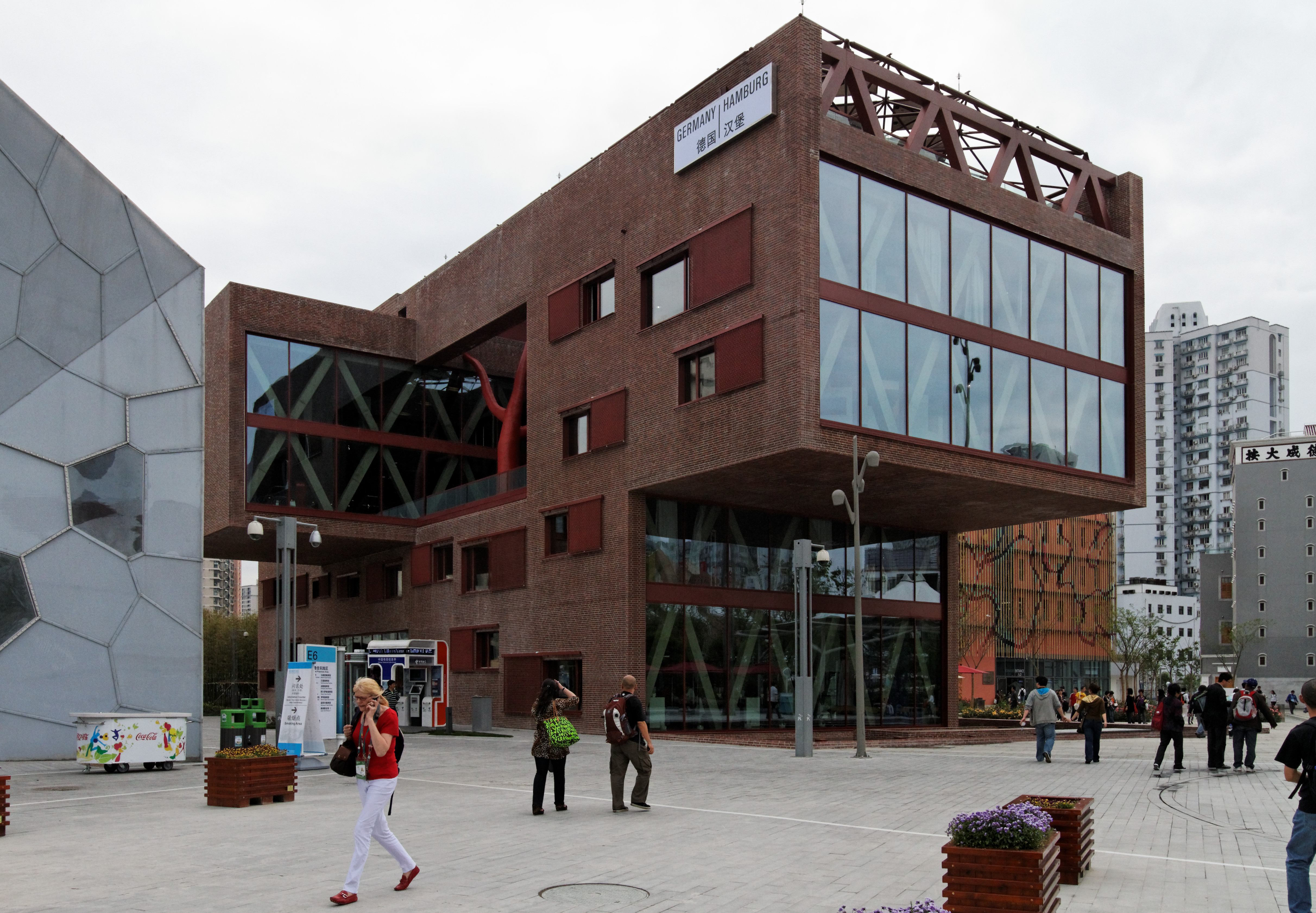 Hamburg Case Pavilion, Urban Best Practices Area, Expo 2010